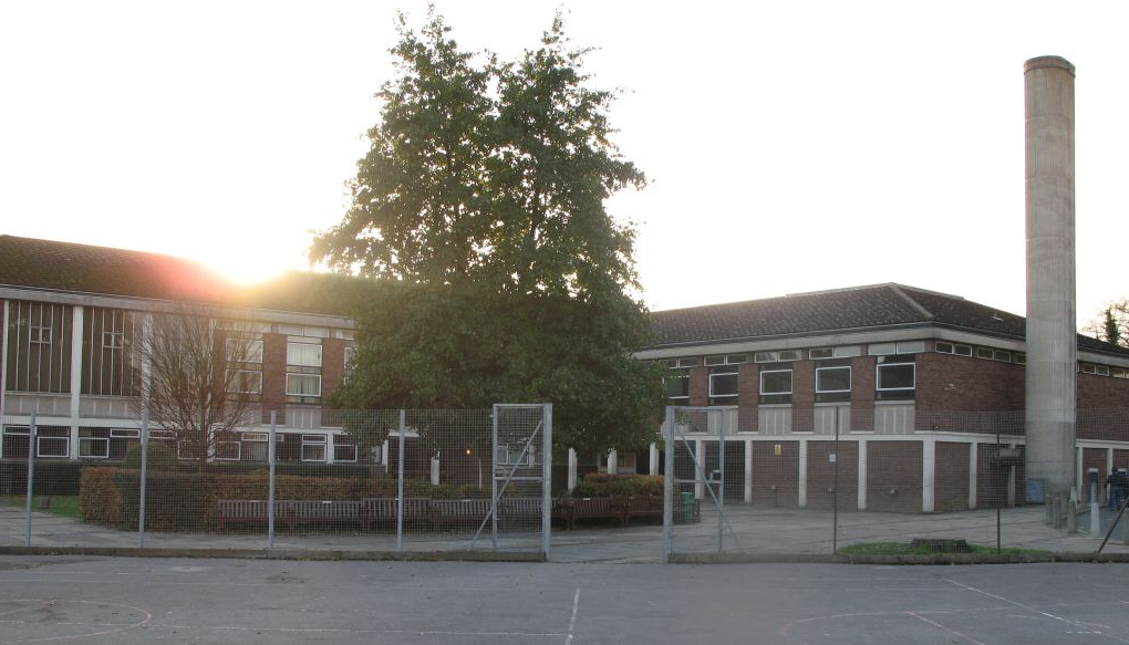 Description: Front of St Ignatius College Source: User:Fatjoe151 Date: 12/11/06 Location: At the school Author: User:Fatjoe151